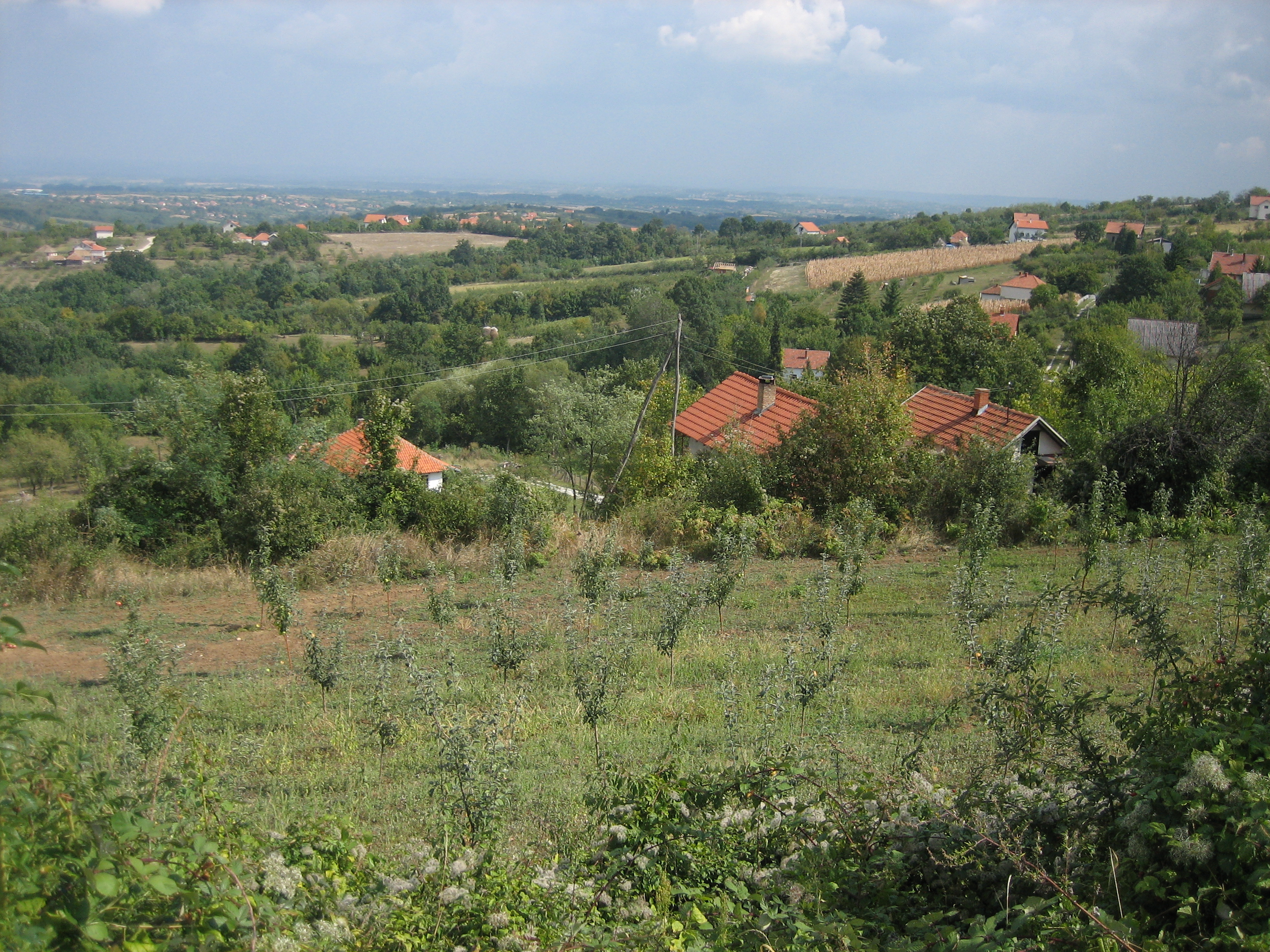 Orasac Countryside